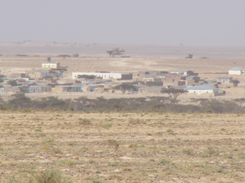 Yubbe town in Sanaag, Somalia.